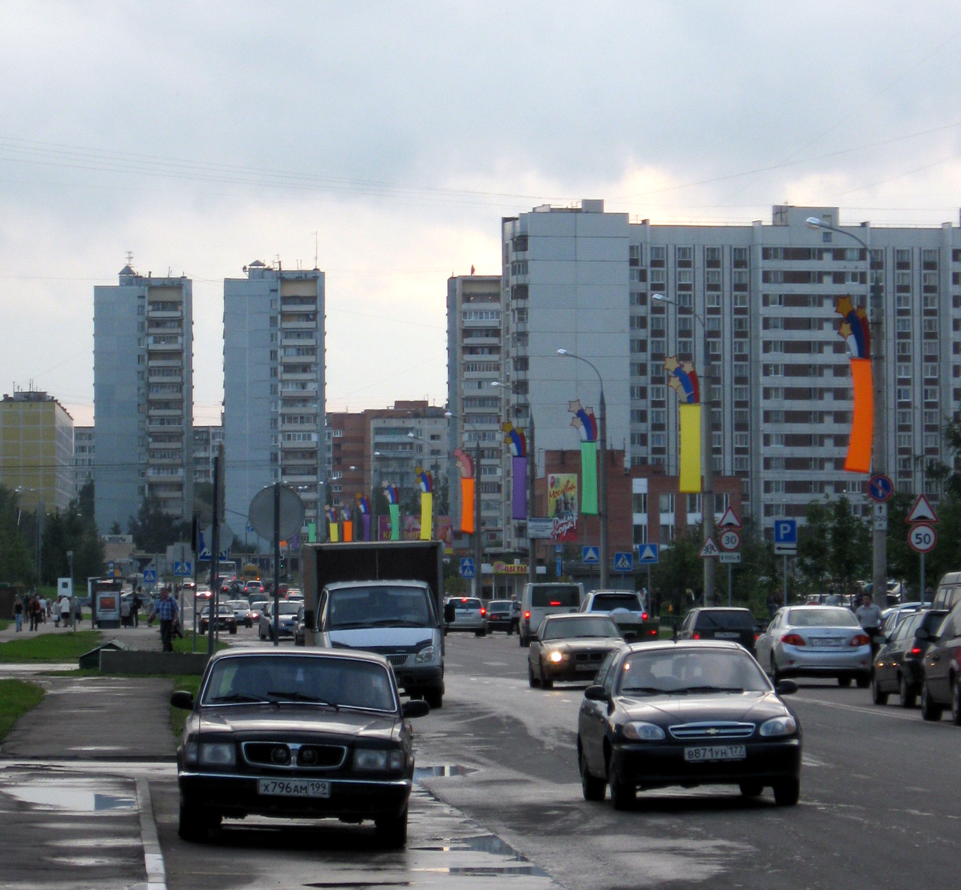 Panfilovsky Avenue